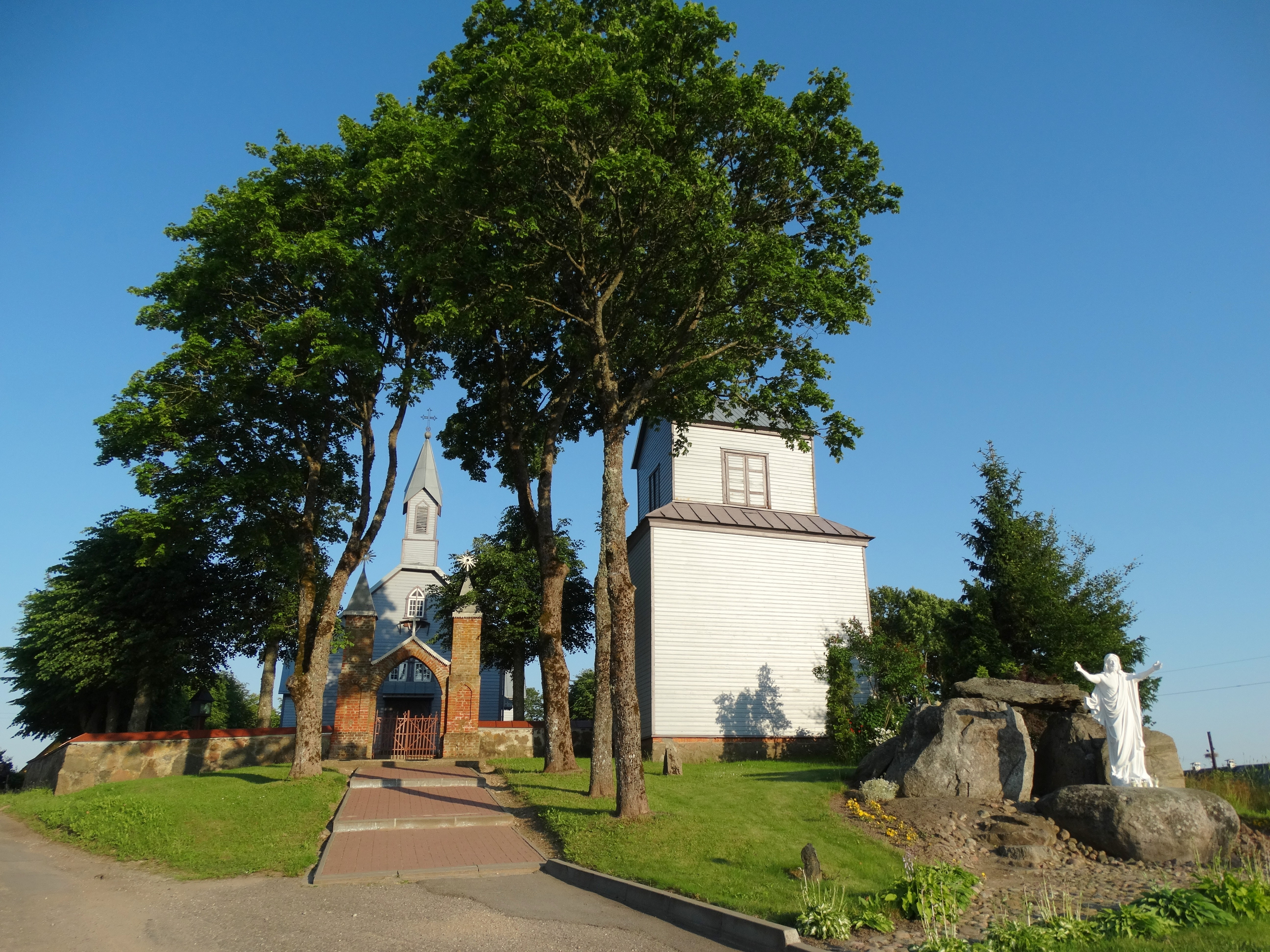 Holy Trinity Church, Viešvėnai, Telšiai District, Lithuania